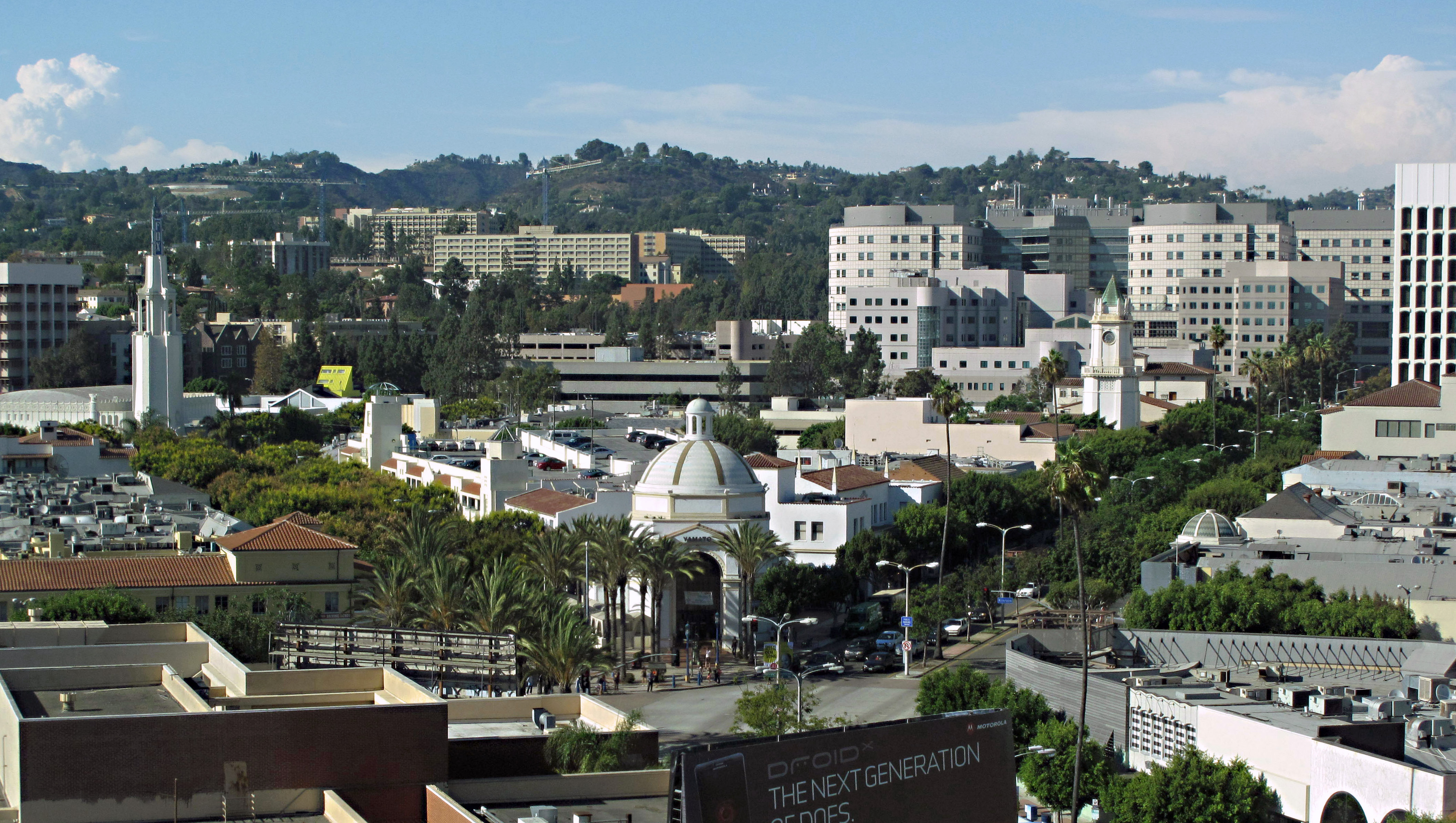 UCLA (University of California at Los Angeles) campus from the south. Behind the buildings is the neighborhood of Bel Air, with houses scattered in the Santa Monica Mountains.